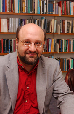 A picture of American economist Steven Horwitz